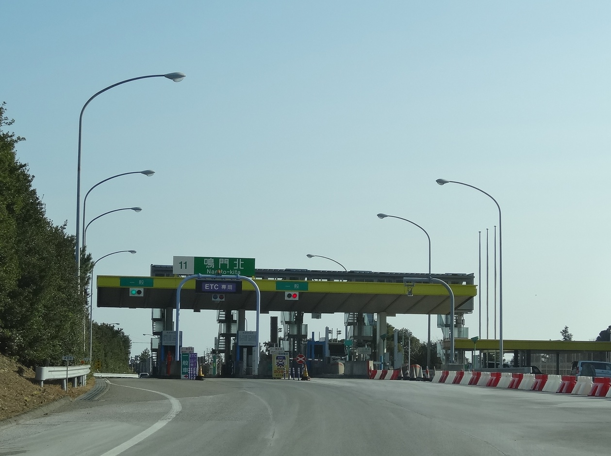 The North Naruto Interchange of Kobe-Awaji-Naruto Expressway at Naruto City, Tokushima Prefecture, Japan.